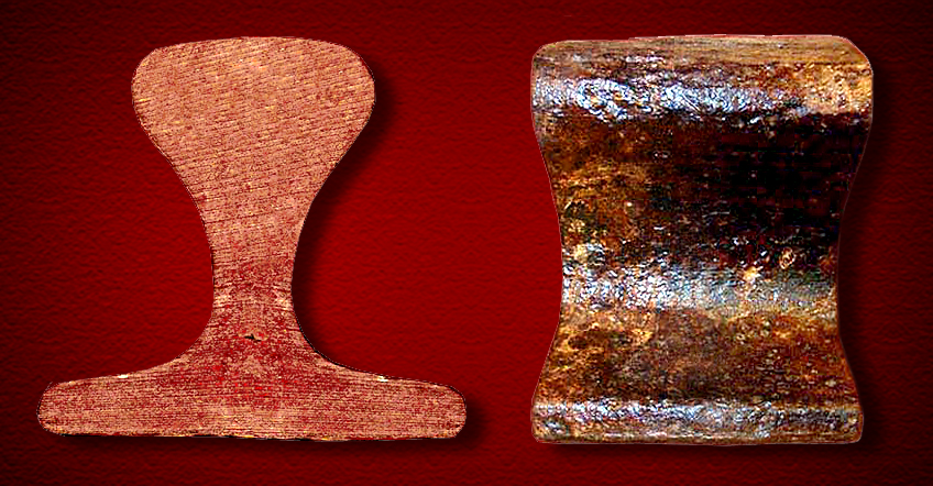 1856 Welsh 60-Pound Iron "Pear" Rail, Sacramento Valley Railroad, Folsom, California Source: The Cooper Collection of U.S. Railroadiana (Image/illustration entirely created by uploader.)